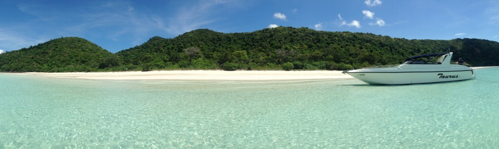 Ko Khram Beach is located just off the coast of Sattahip district, eastern Thailand, it is one of the many deserted islands in the area.